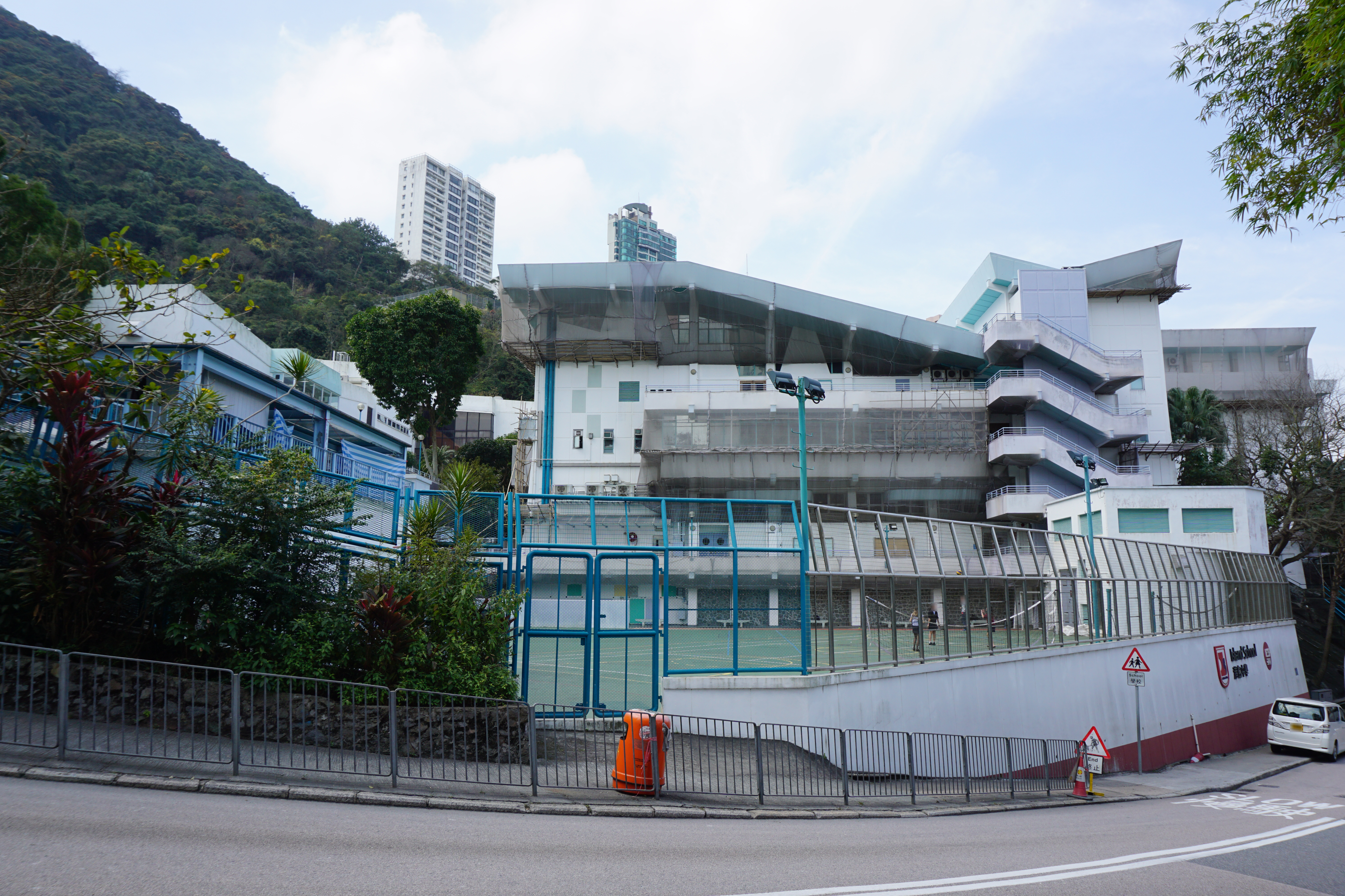 Island School in Mid-levels Central, Hong Kong.